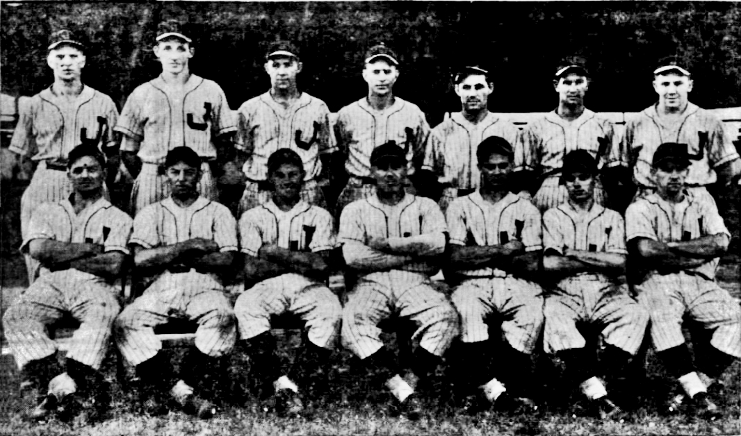 A photograph of the Jackson Generals, pennant winners of the 1941 Kentucky–Illinois–Tennessee League